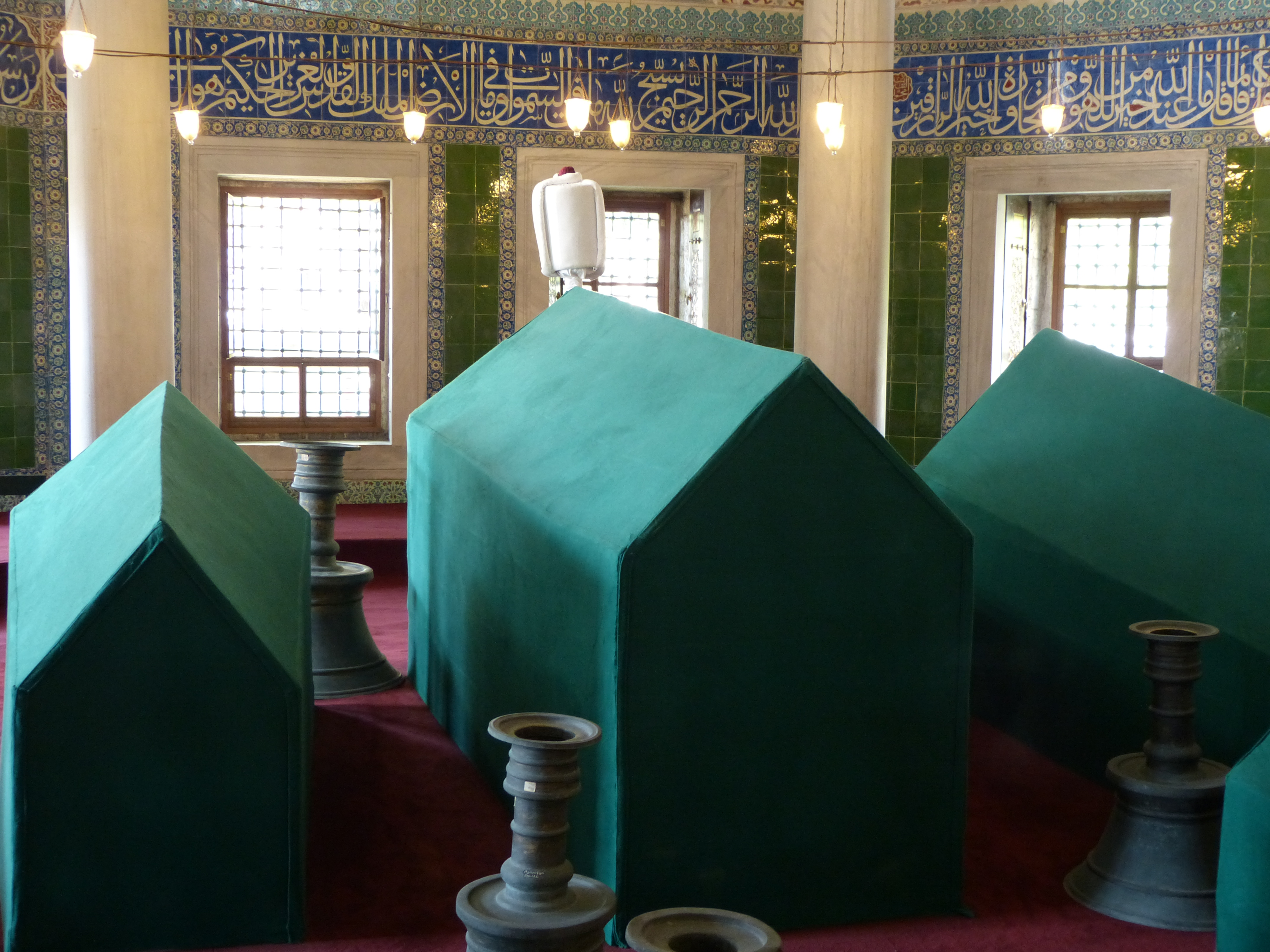 Türbe (Tomb) of Sultan Mehmed III. (1566–1603)